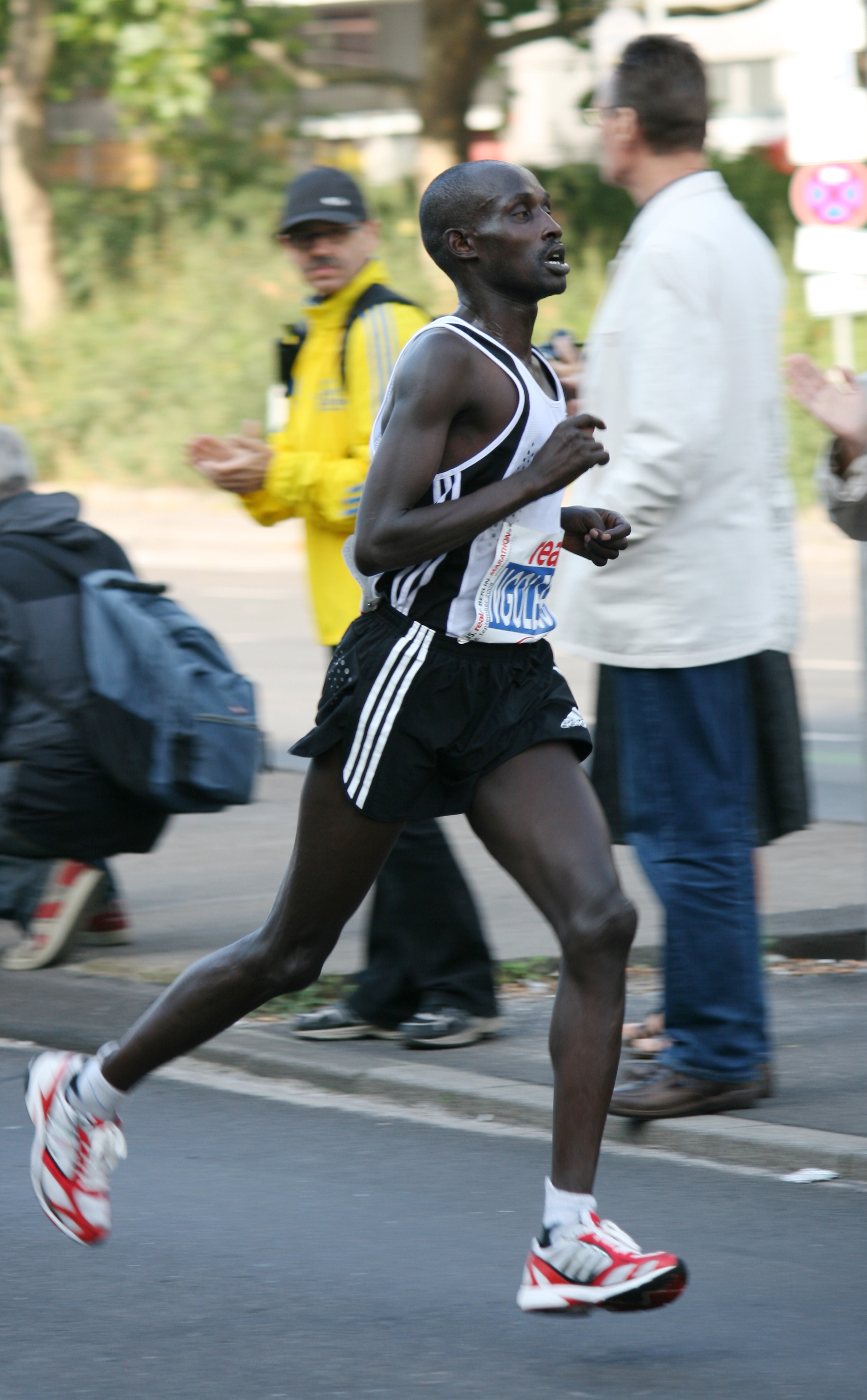 Joseph Ngolepus, Kenyan long-distance runner, at the Berlin Marathon 2008